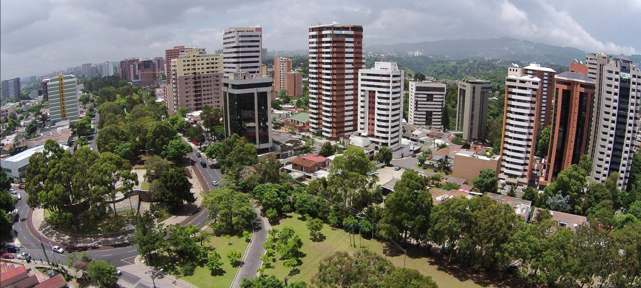 Guatemala City zone 14